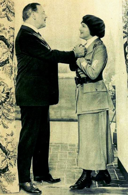 Henry Miller and Blanche Bates in The Famous Mrs. Fair, on page 31 of the February 1920 Shadowland.